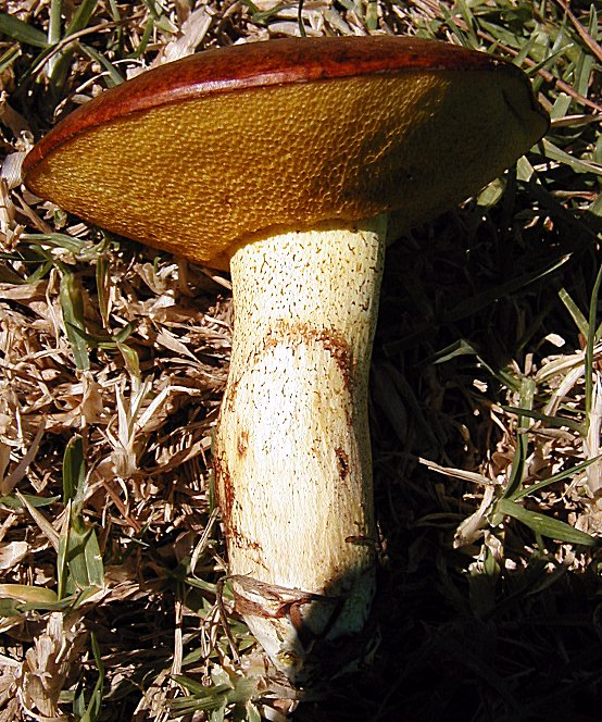 Suillus granulatus, under pine trees in a playground in Helensburgh, NSW